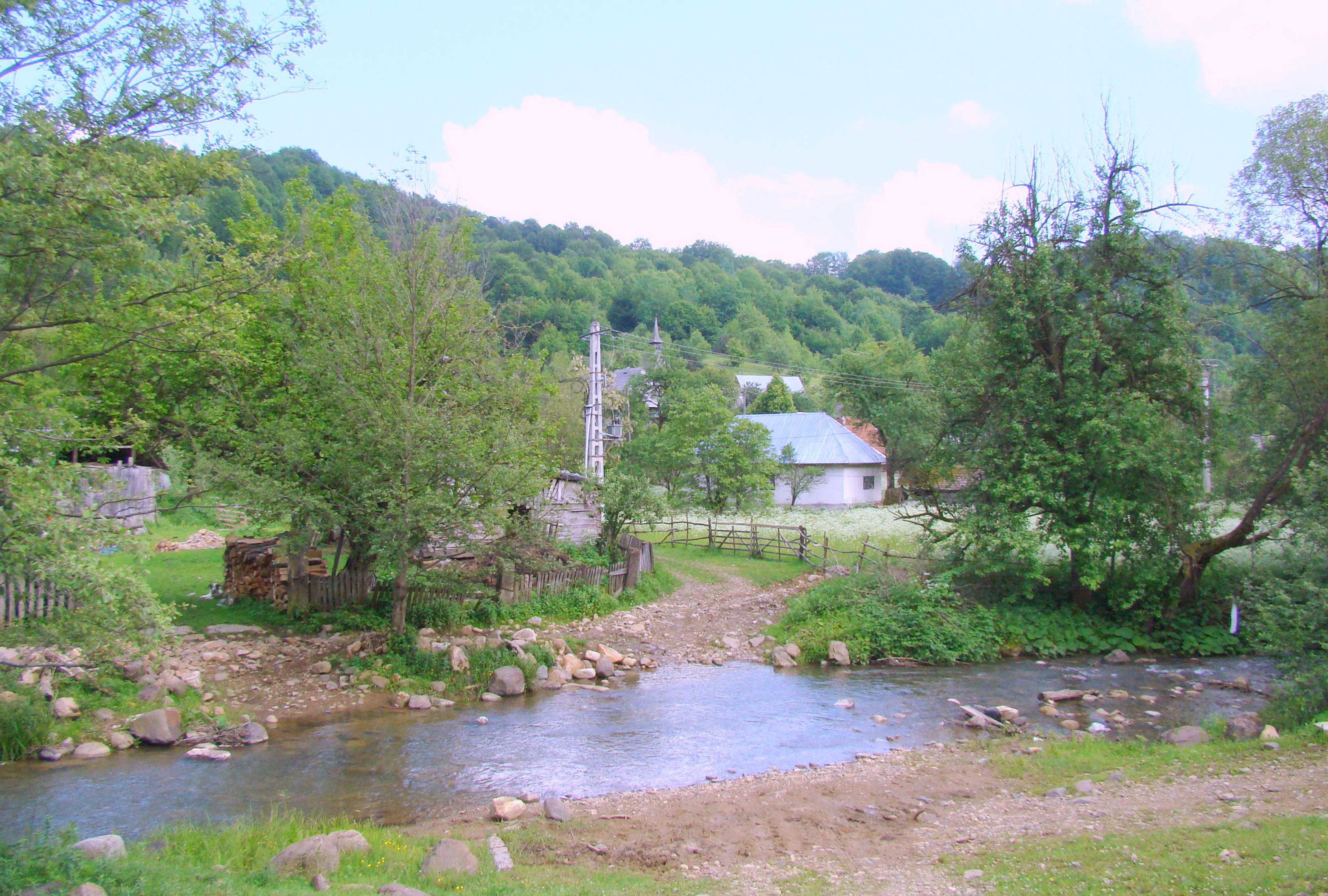 Izvoarele, Maramureș county, Romania